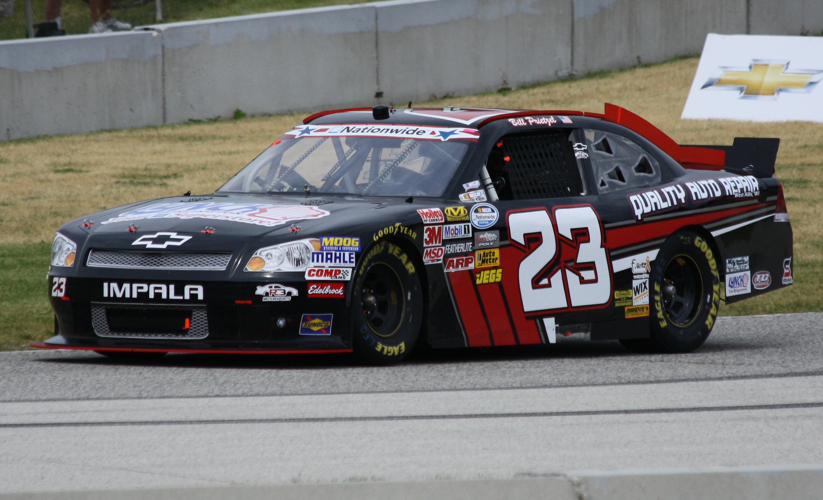 Bill Prietzel NASCAR Nationwide Series car at Road America at the 2012 Sargento 200.